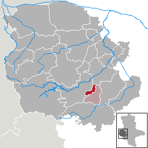 Bad Suderode in Saxony-Anhalt - District Harz